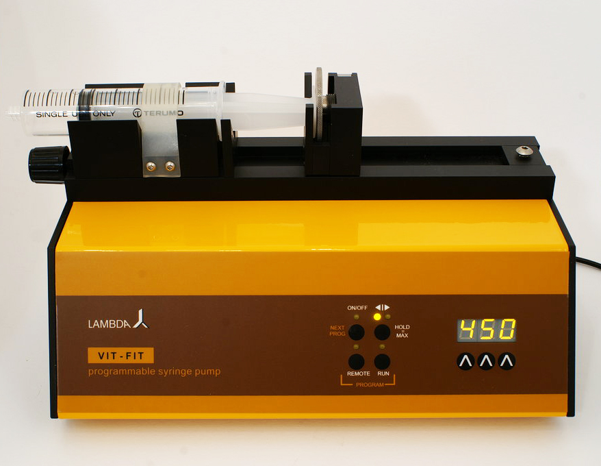 Polyvalent syringe pump, Lambda VIT-FIT